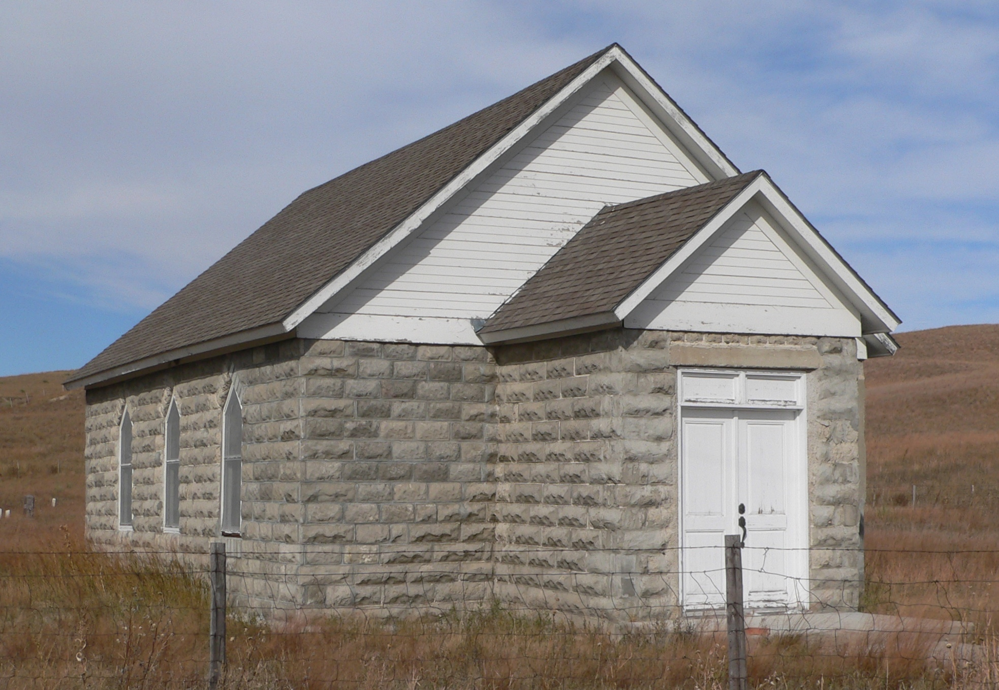 Dry Valley Church, located north of Mullen, in rural Cherry County, Nebraska; seen from the southwest. The church is listed in the National Register of Historic Places.